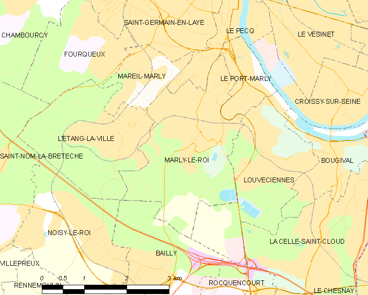 Map of French municipality Marly-le-Roi